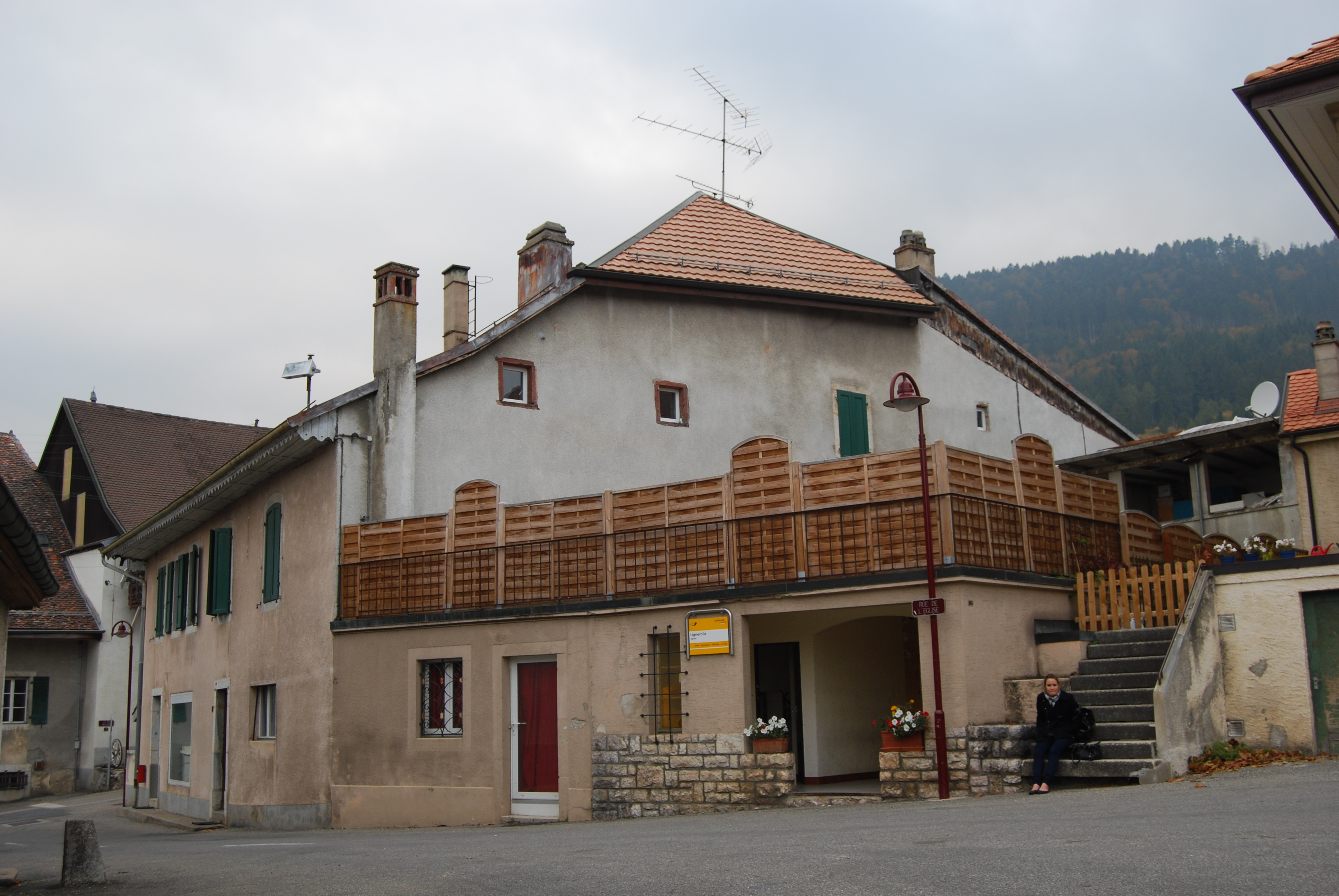 Lignerolle, canton of Vaud, Switzerland